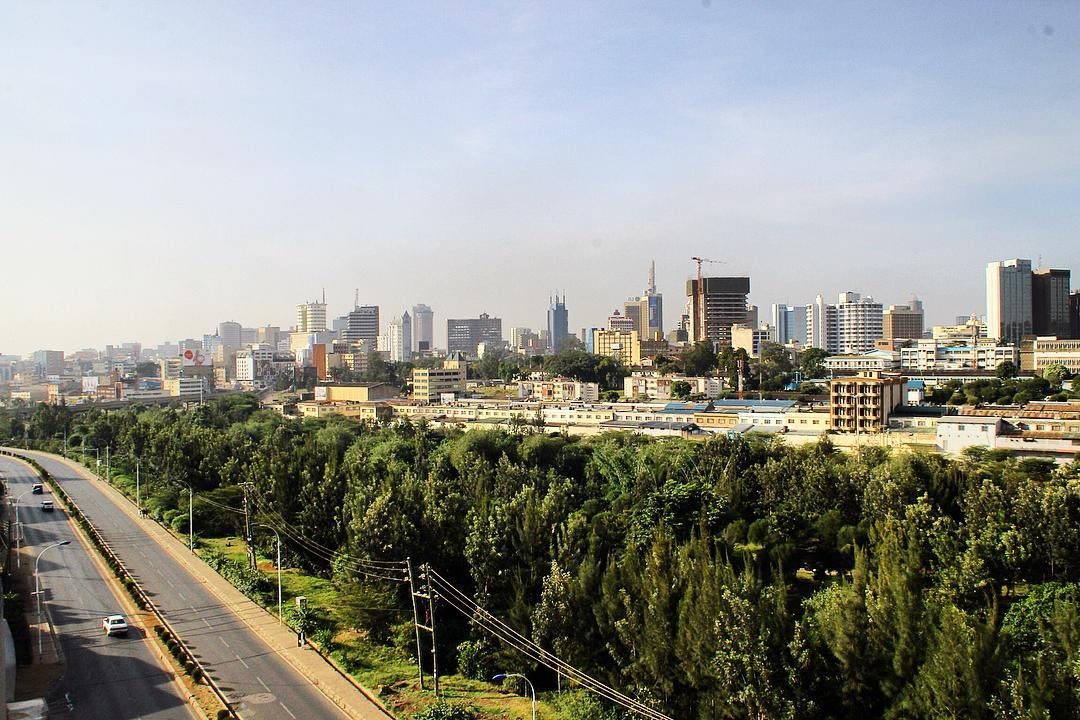 The modern skyline of Nairobi